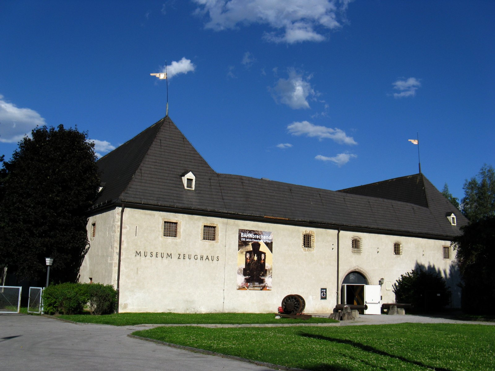 outside view of Zeughaus in Innsbruck part of Tiroler Landesmuseum